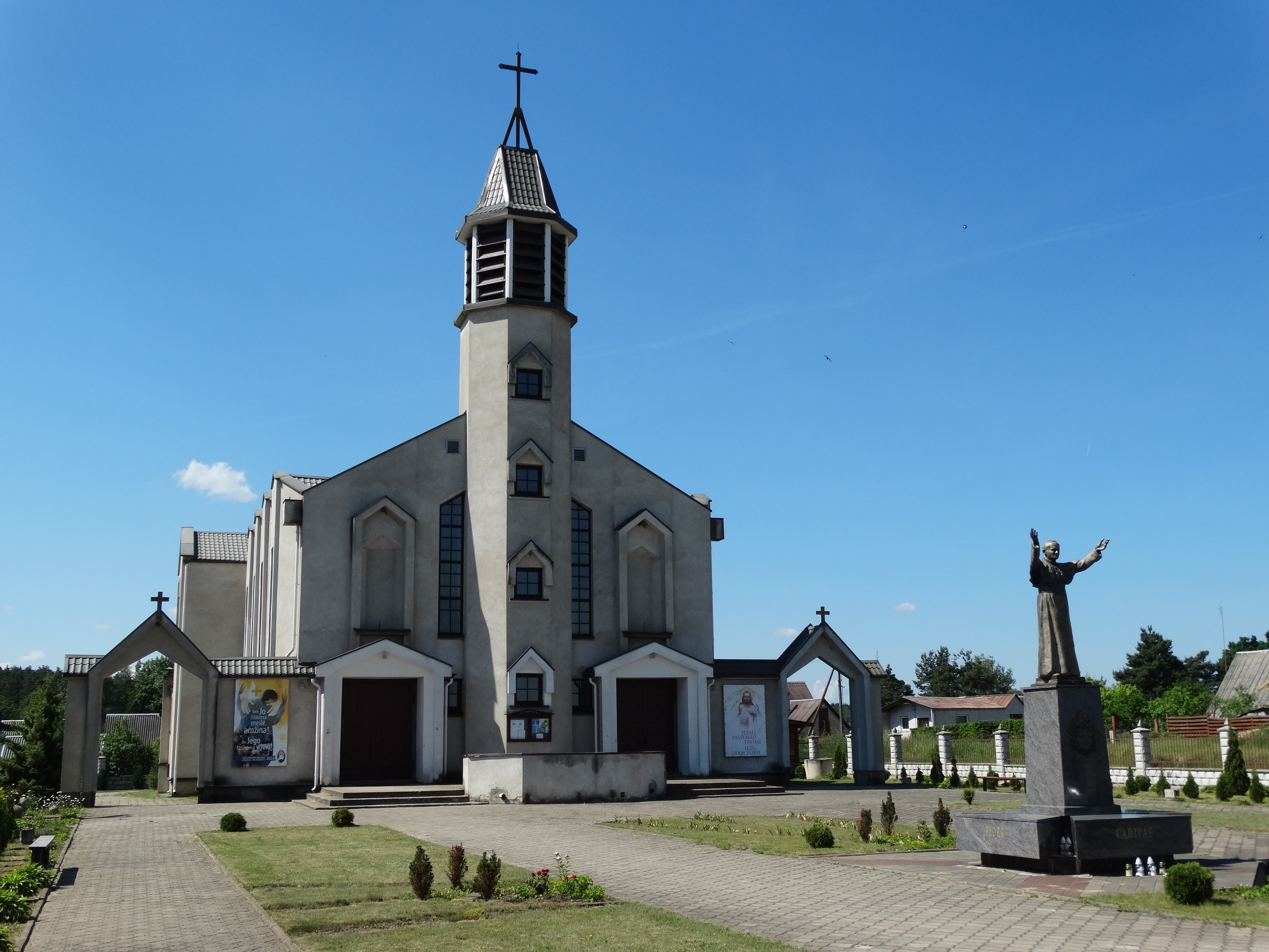 Divine Mercy Catholic Church, Kalveliai, Vilnius District, Lithuania